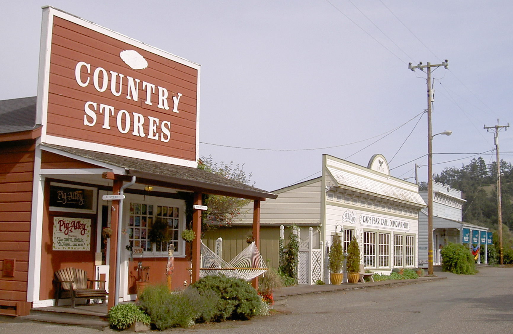 some of the shops in Duncan's Mills, California